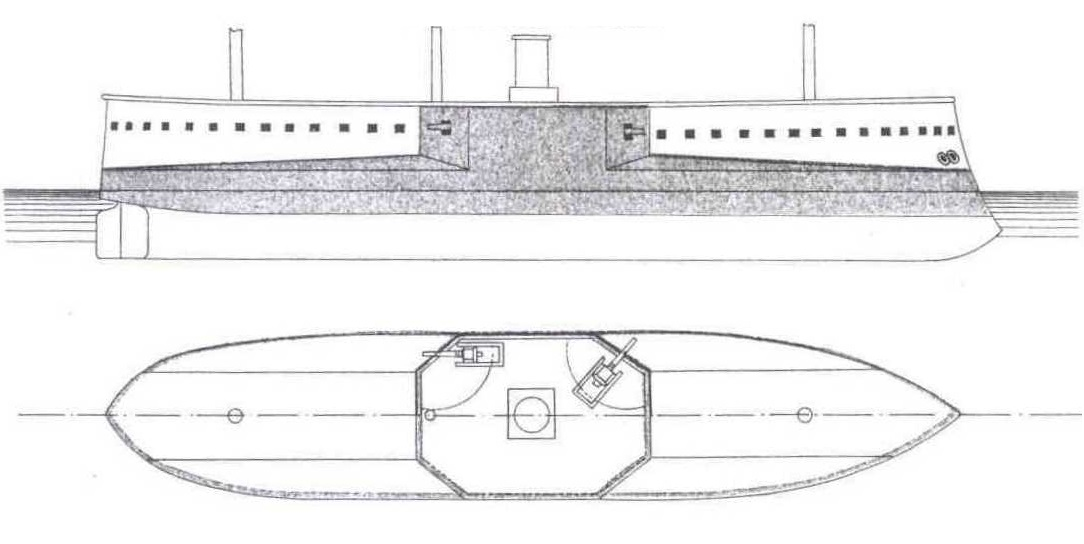 Turkish ironclad Feth-i Bülend, launched 1869.